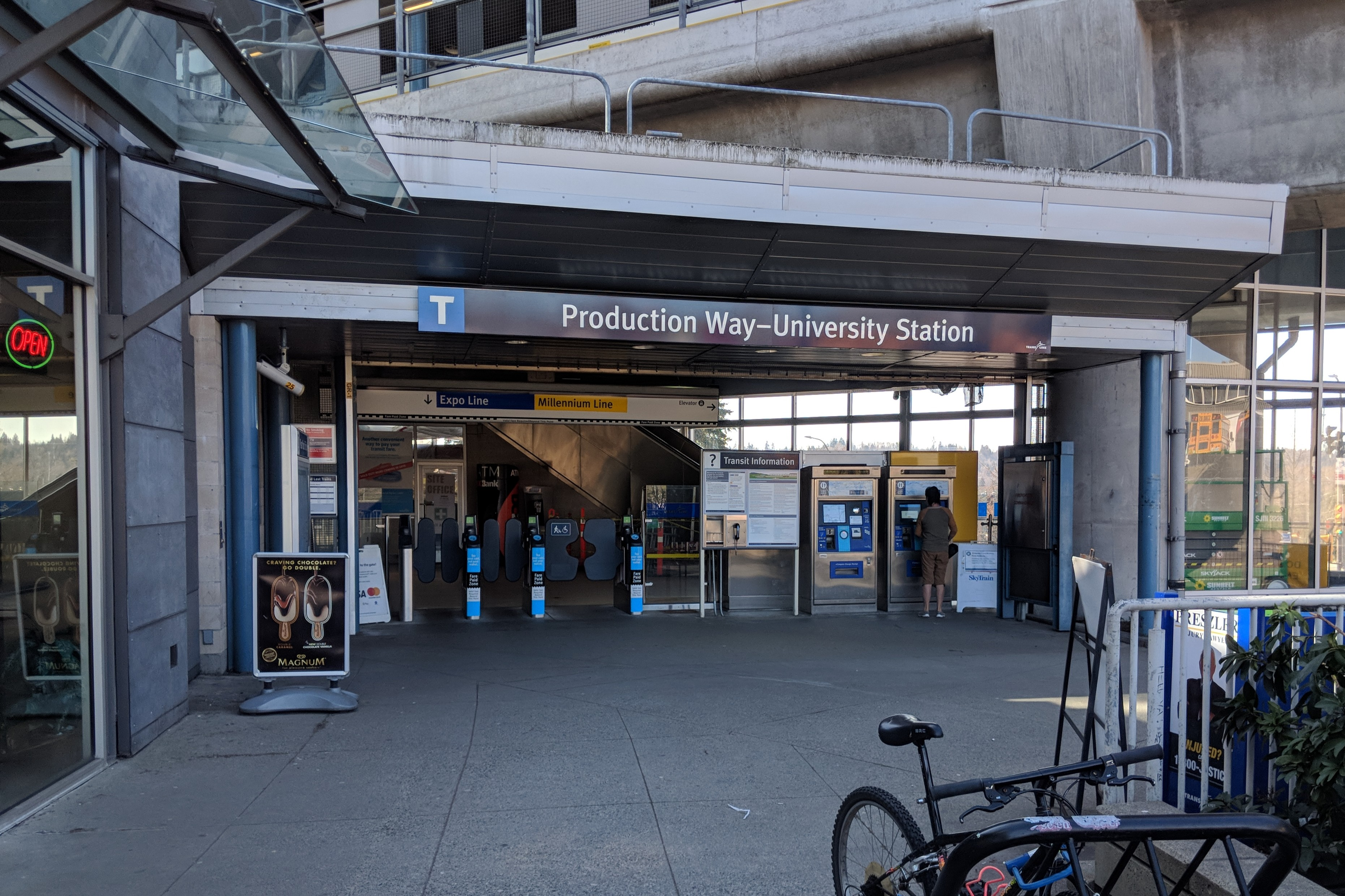 Primary entrance for Production Way–University station. This entrance is located on Production Way.